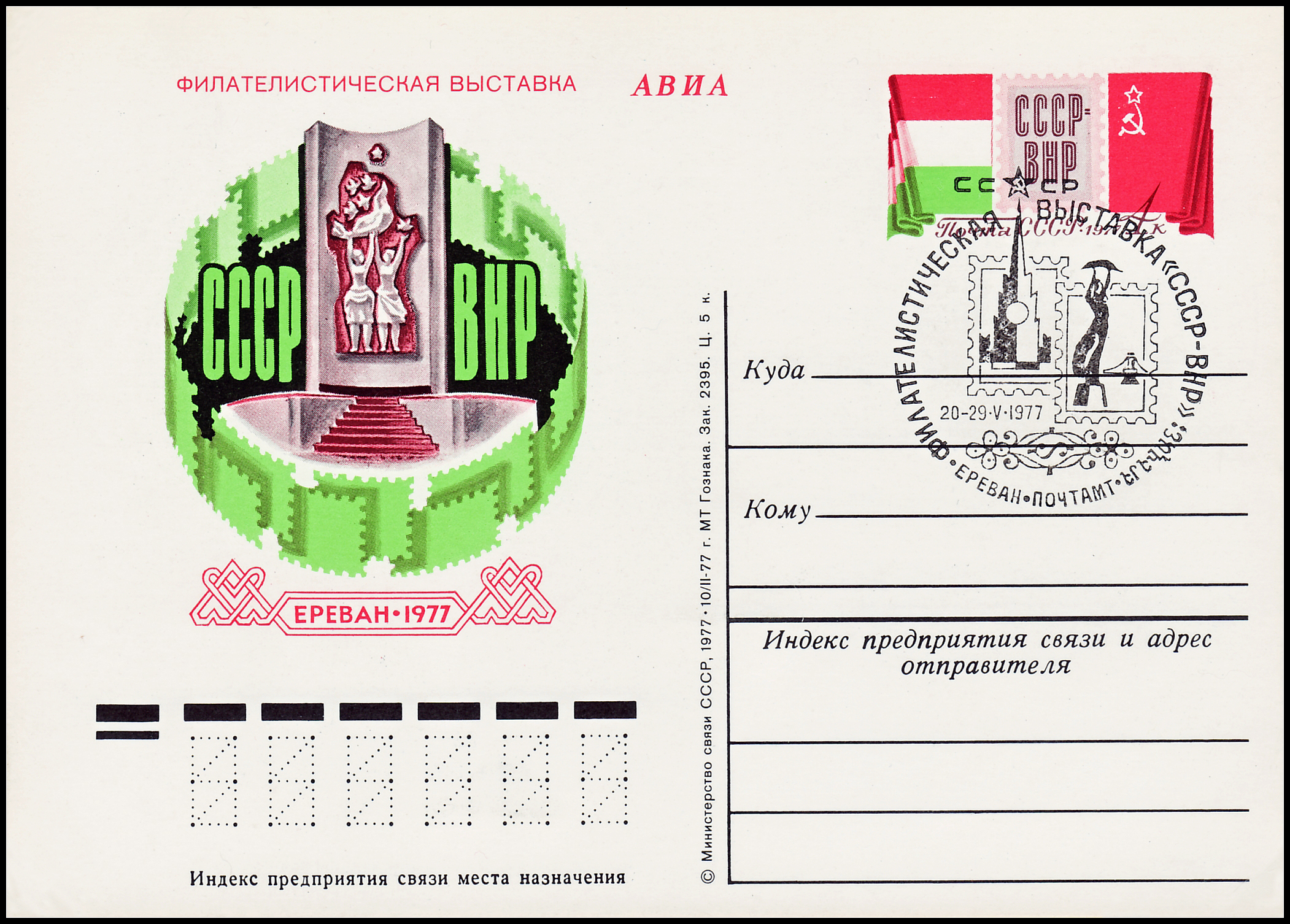 USSR, 1977. Postal card with commemorative stamp. Airmail. "International Philatelic Exhibition USSR - Hungary. Yerevan" (CPA Catalogue CPA №47). Stamp: Stylized stamp, flags of the USSR and Hungary. Illustration: Monument of Soviet-Hungarian friendship in Moscow; decoration of stylized stamps. Painter R. Strelnikov. Special cancellations: "International Philatelic Exhibition USSR - Hungary" 20-29.5.1977 Yerevan, Central Post Office.